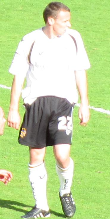 Gary Roberts (footballer born 1987)